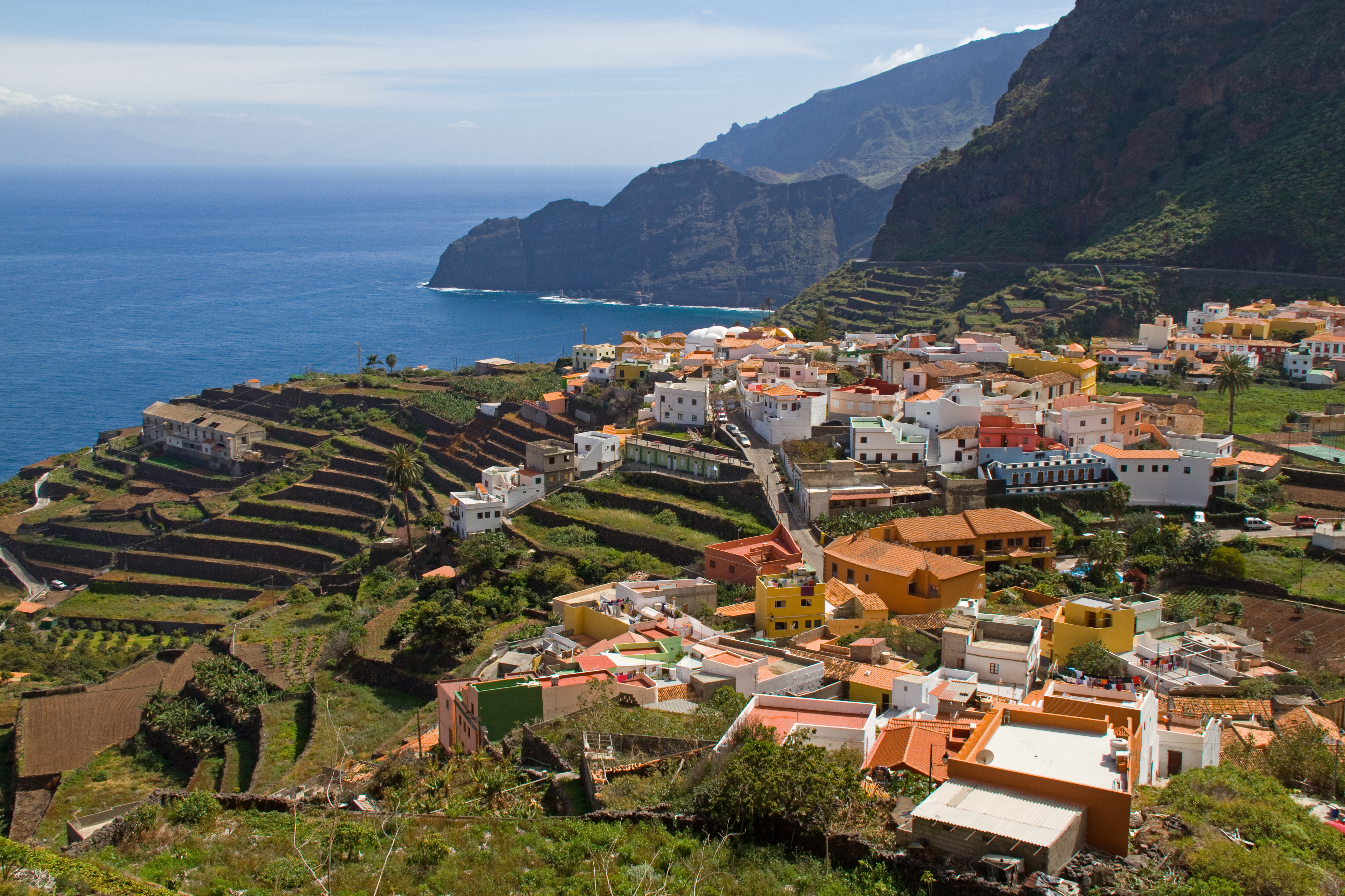 View of houses in Agulo